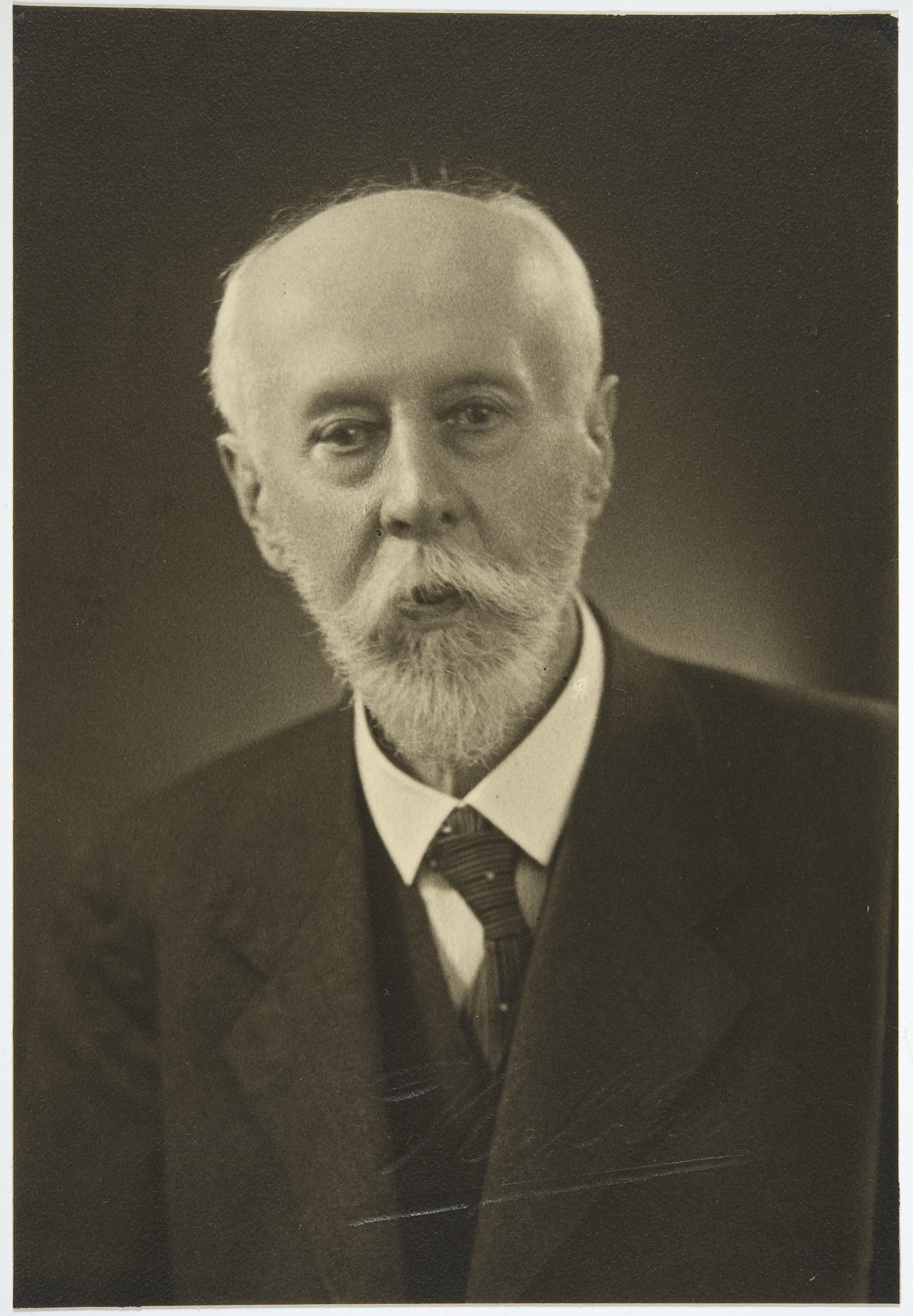 Photograph of the Finnish historian Carl von Bonsdorff (1862–1951).